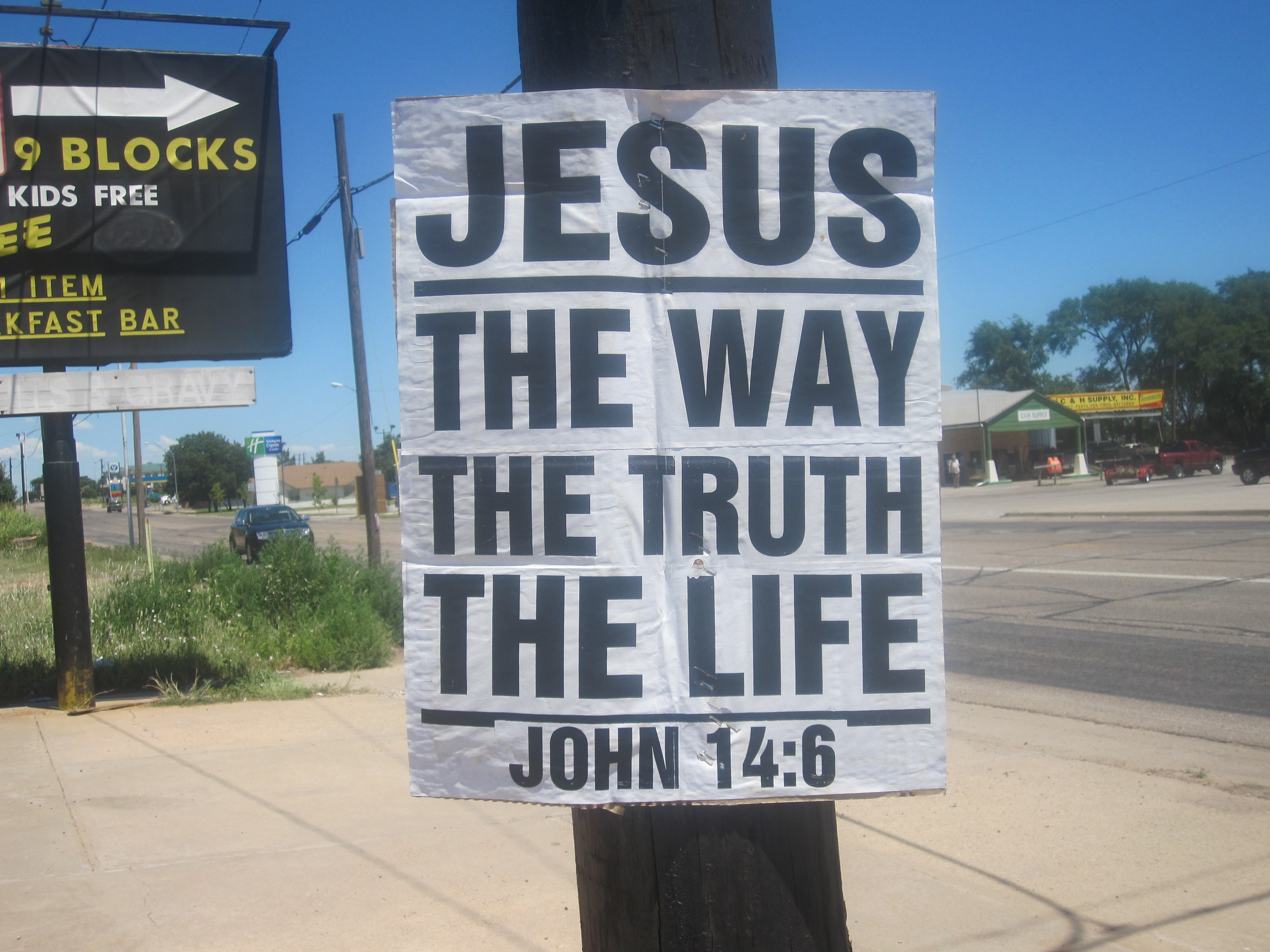 I took photo with Canon camera in Shamrock, TX.